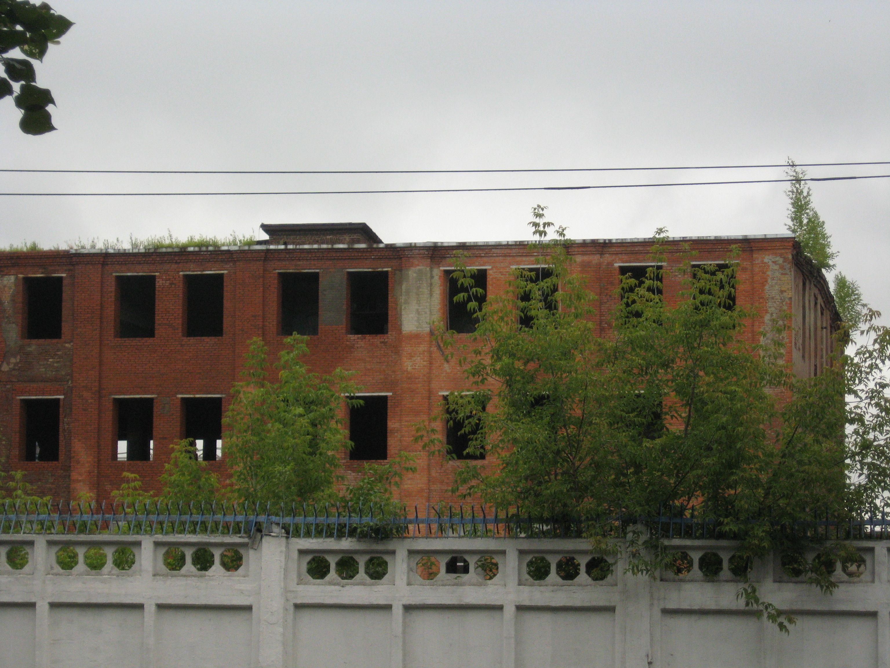 A factory in the Moscow region that manufactured agricultural machinery in the past.